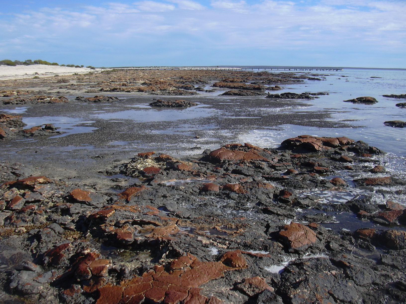 Red-capped domes (stromatolites) at Hamilton Pool, Shark Bay/Western Australia